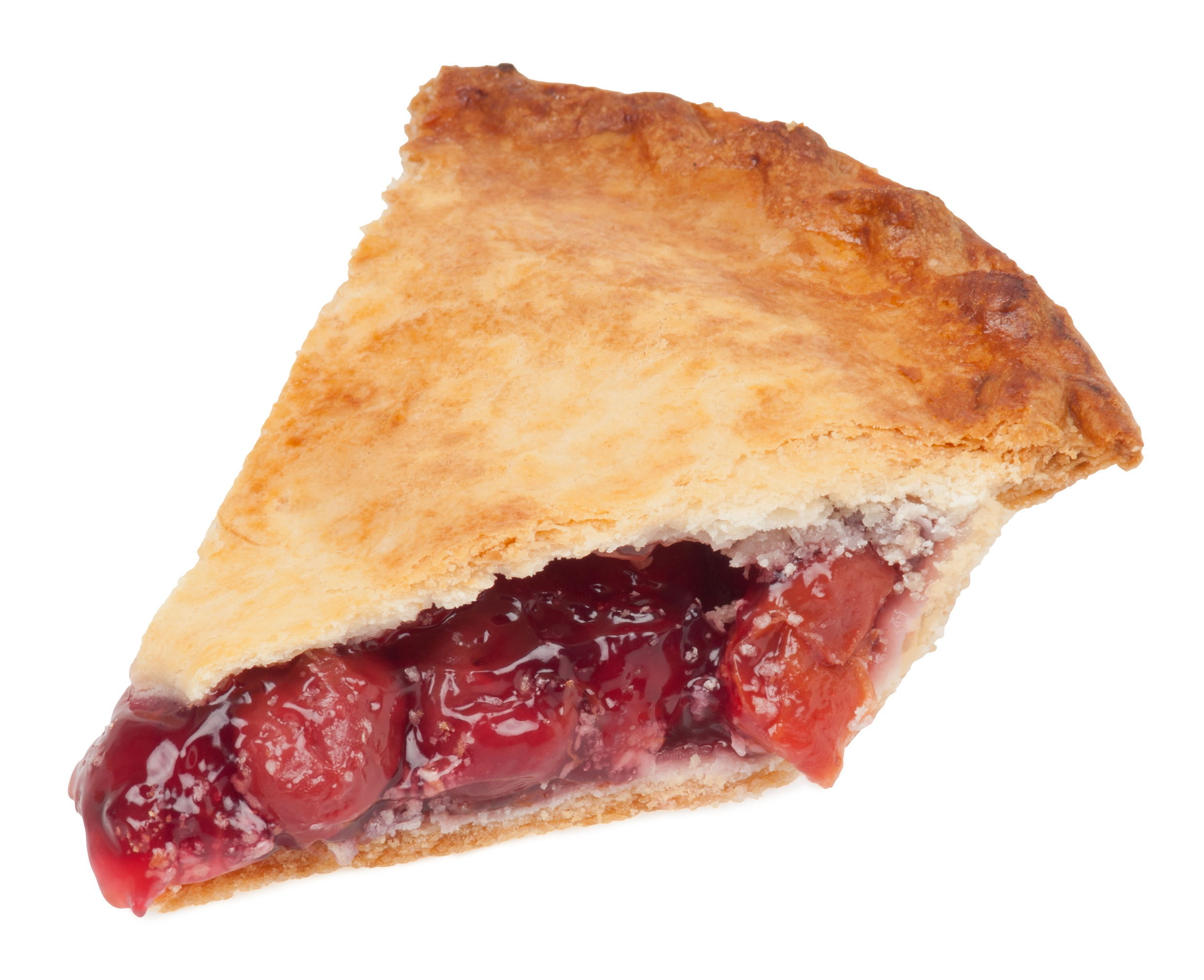 A slice of Table Talk brand cherry pie, from a local supermarket in NYC.